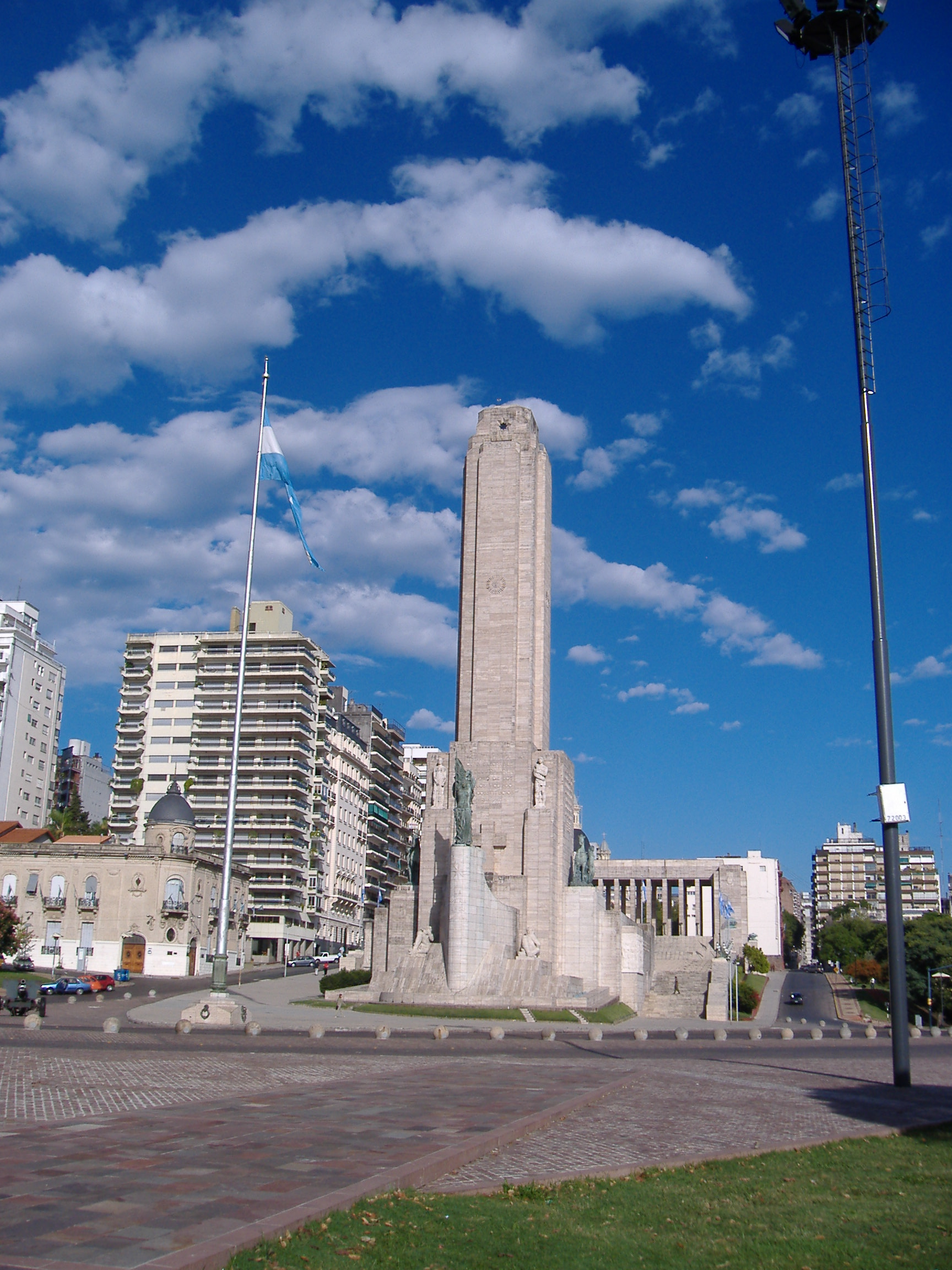 The National Flag Memorial (Monumento Nacional a la Bandera) in Rosario, Argentina, near the banks of the Paraná River. The picture was taken by me, Pablo D. Flores, on 1 March 2006.